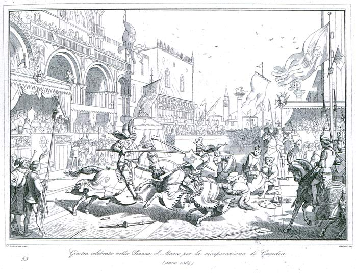 c. 1863 Illustration of a Joust in the Piazza St. Marco celebrating the recovery of Candia from the History of Venice by Giuseppe Lorenzo Gatteri